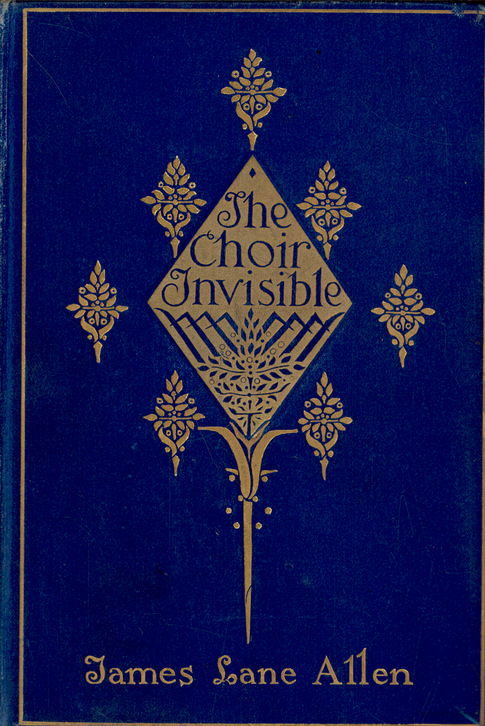 Scan of front cover of 1897 American novel "The Choir Invisible" by James Lane Allen, a best selling book in the United States for 1897.